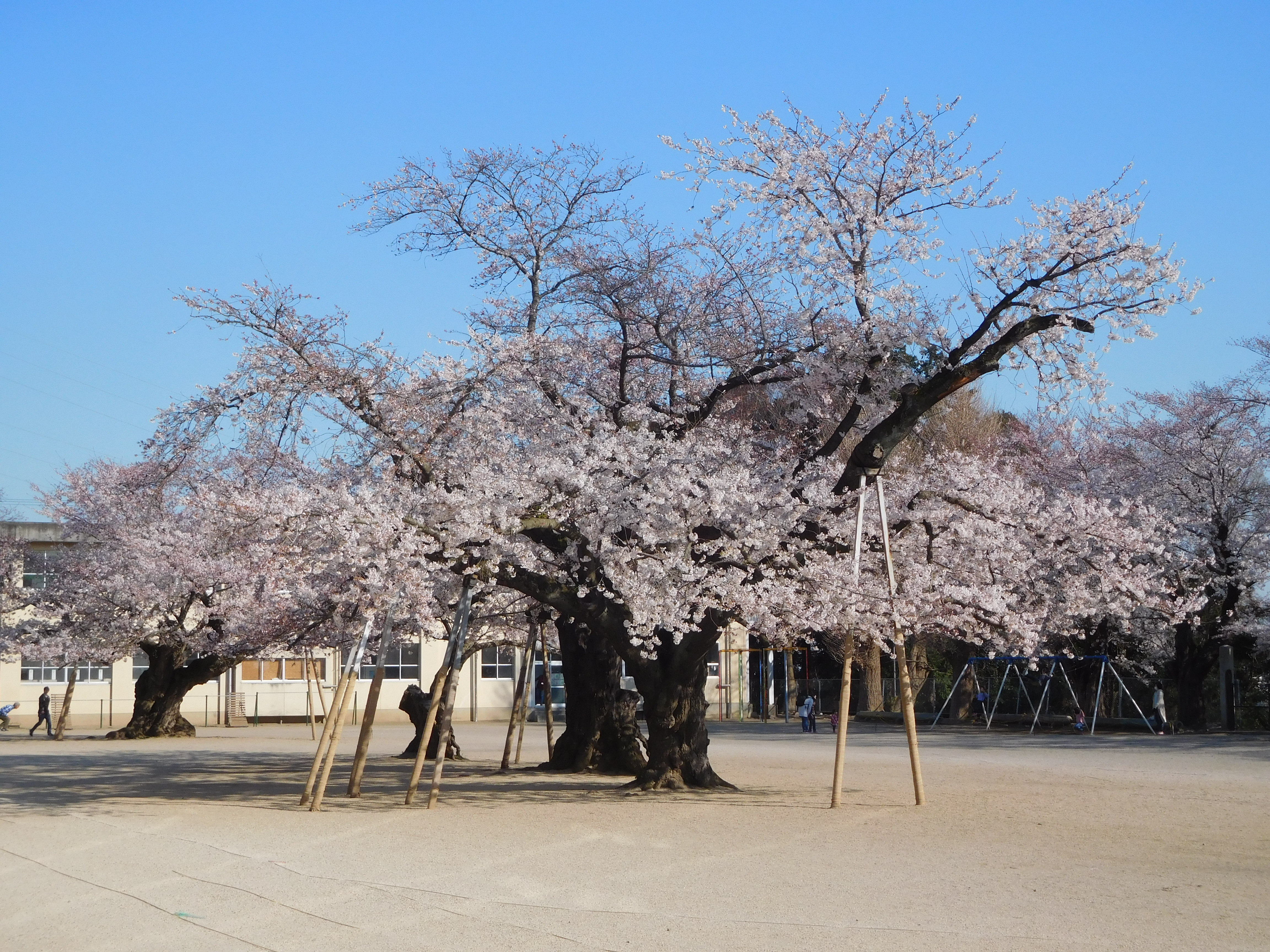 This is Manabe no Sakura, Cherry Blossoms of Manabe Elementary School in Tsuchiura, Ibaraki, Japan.